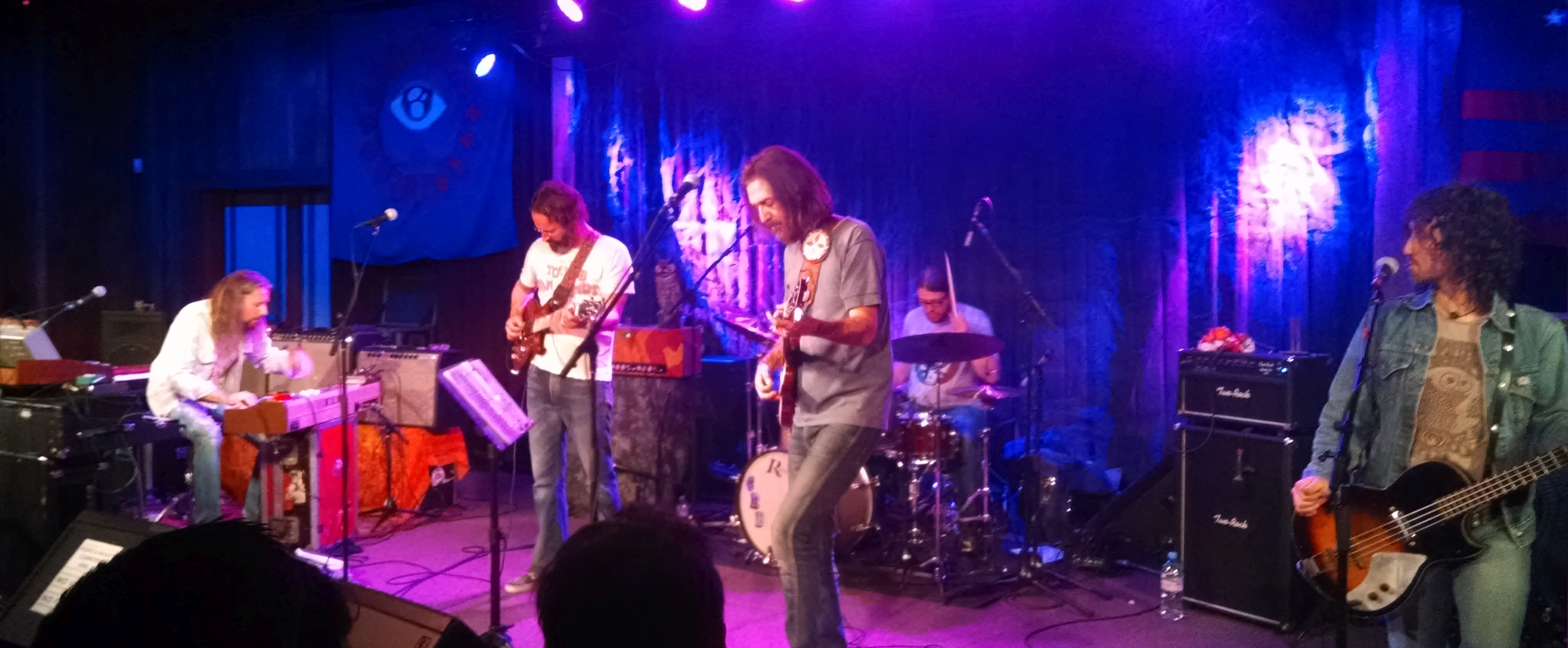 Chris Robinson Brotherhood at Terrapin Crossroads, April 29, 2014